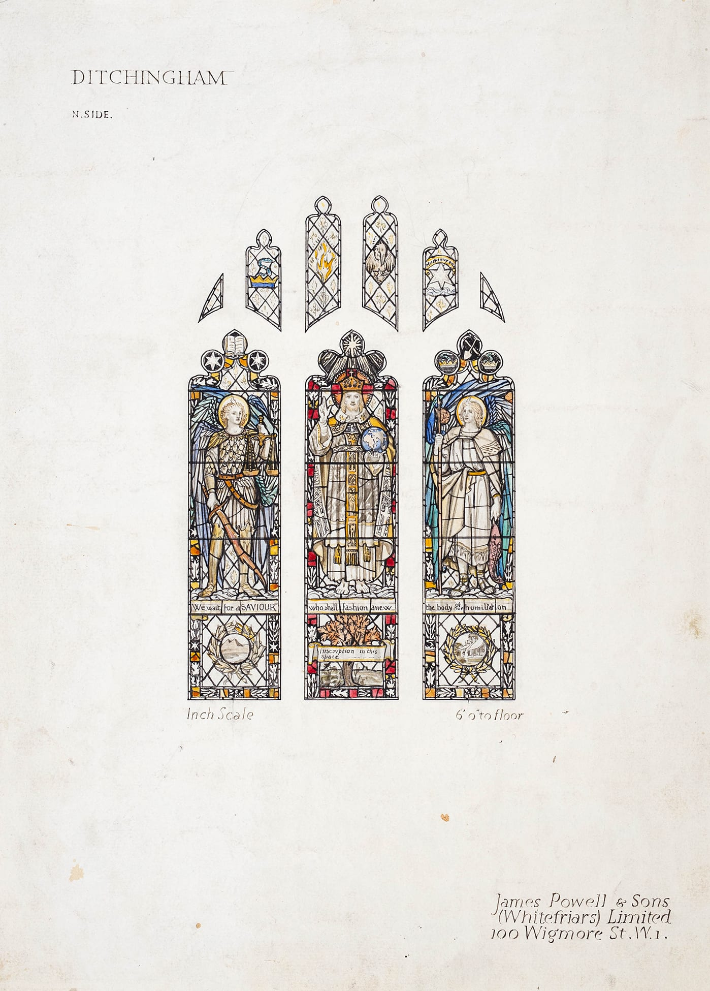 Offered for sale by Abbott and Holder in December 2019, when it was described as "’POWELL James & Sons (Whitefriars) Limited, 100 Wigmore St. W1’. Ditchingham Church, Norfolk. Presentation drawing for the Rider-Haggard window, with Archangels Michael and Raphael. Ink and watercolour. Inscribed and dated, 1925. The window was commissioned 1925 by the artist’s daughter Lilias in memory of Sir Henry Rider Haggard (1856-1925) and the roundels depict his African farm, the Pyramids and a view of Bungay from the Vineyard Hills close to his home. 13.5x9.75 inches"